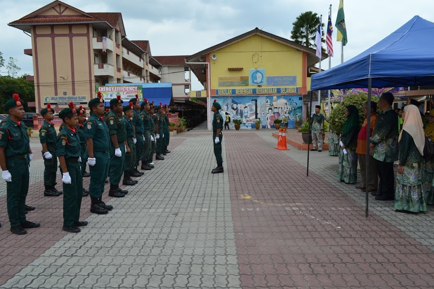 GAMBAR 2